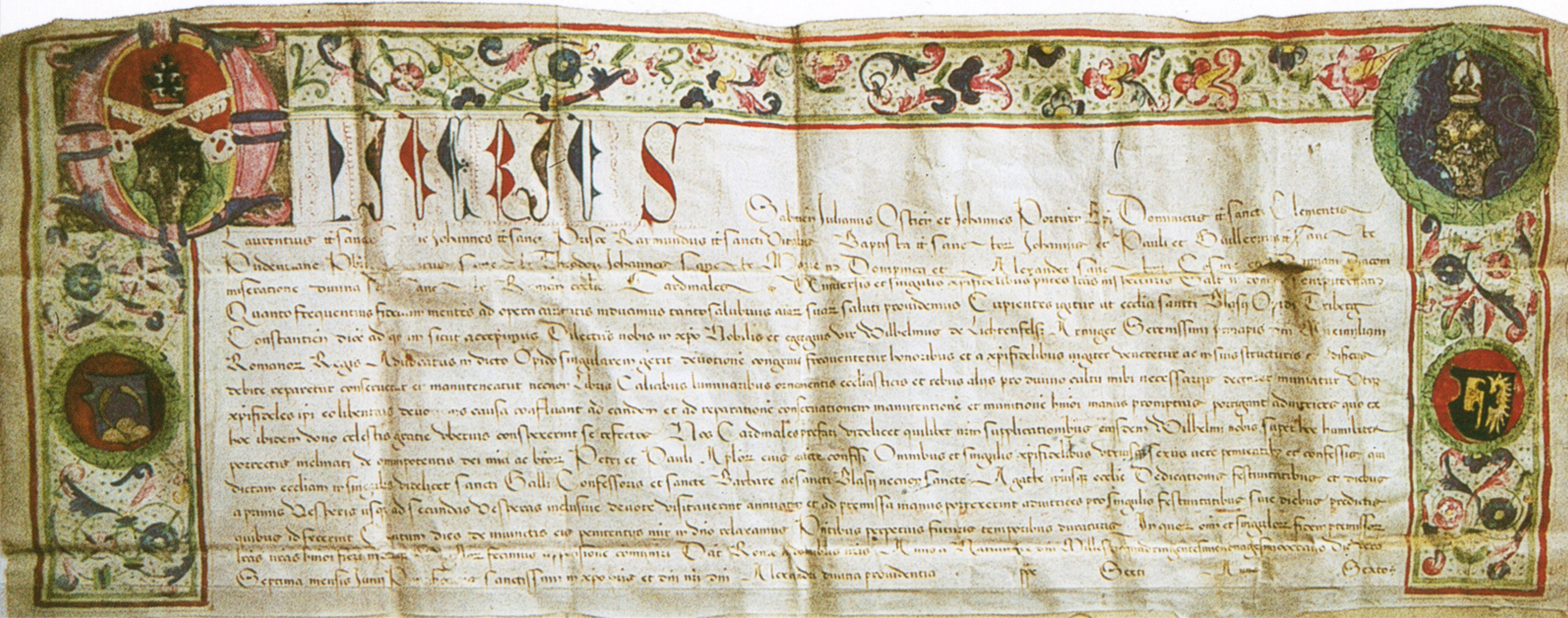 PApal indulgence document for Maria in der Tanne, triberg, AD 1498